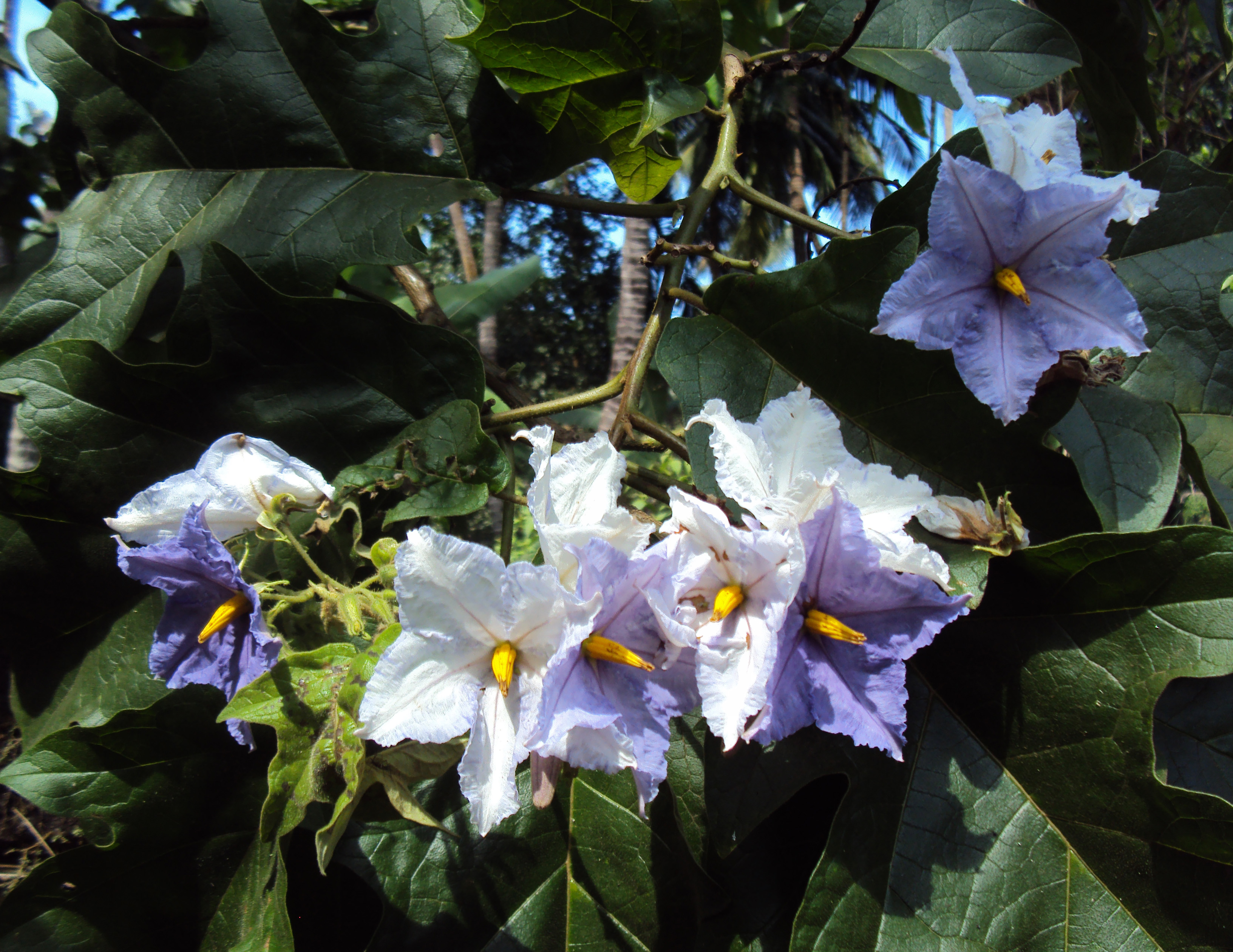 The Giant Star Potato Tree - Solanum Macranthum